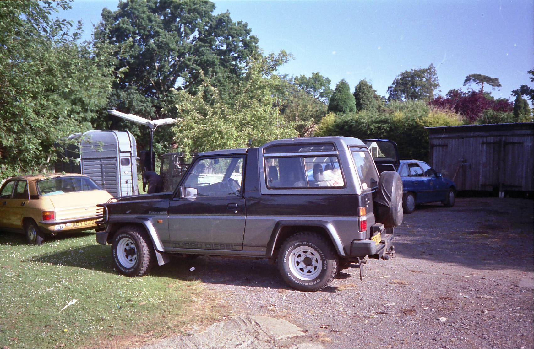 1989 Daihatsu Fourtrak F75 2.8 liter turbo diesel